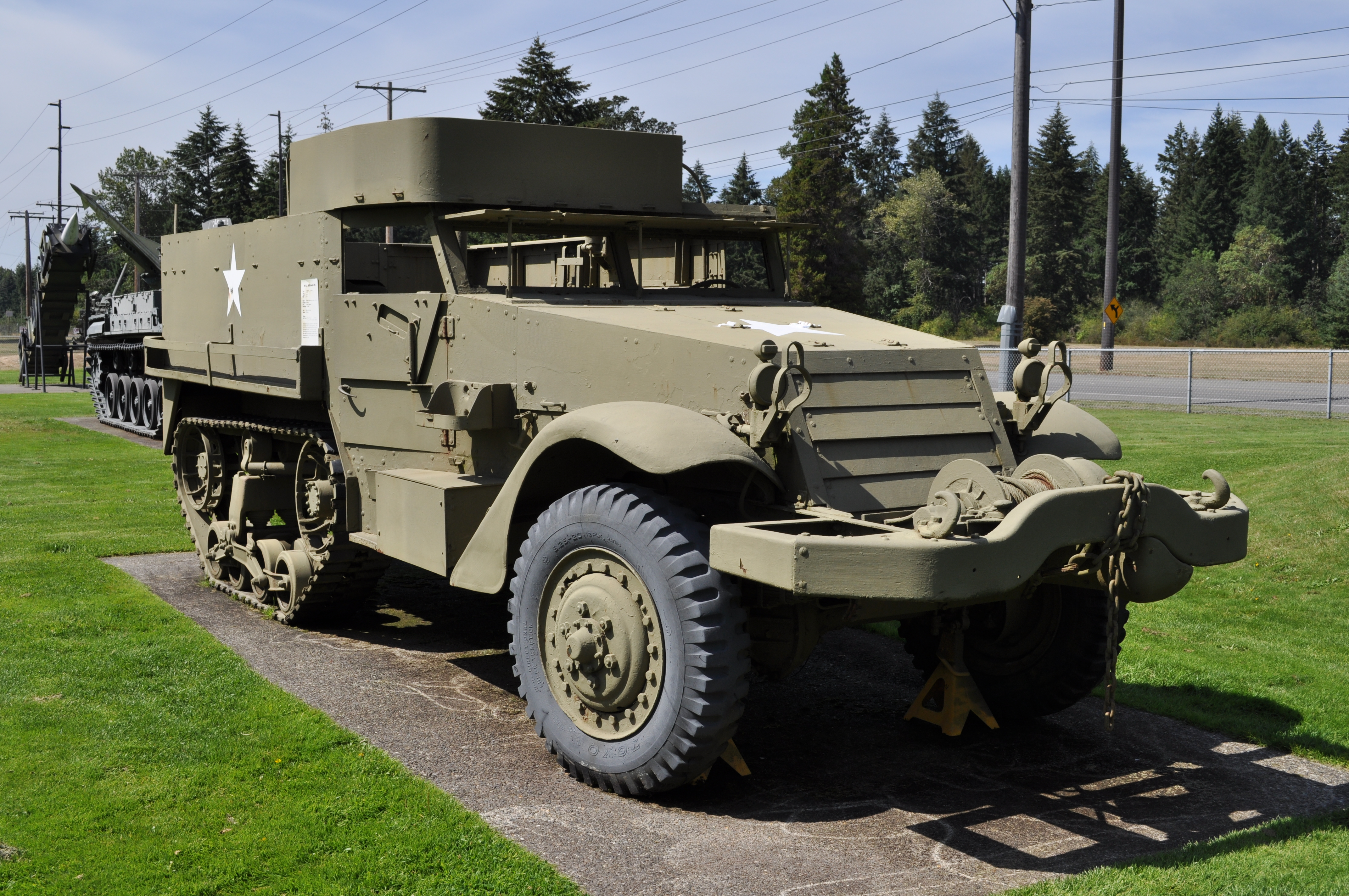 M-3A1 Half-track APC, Fort Lewis Military Museum, Fort Lewis, Washington, USA.